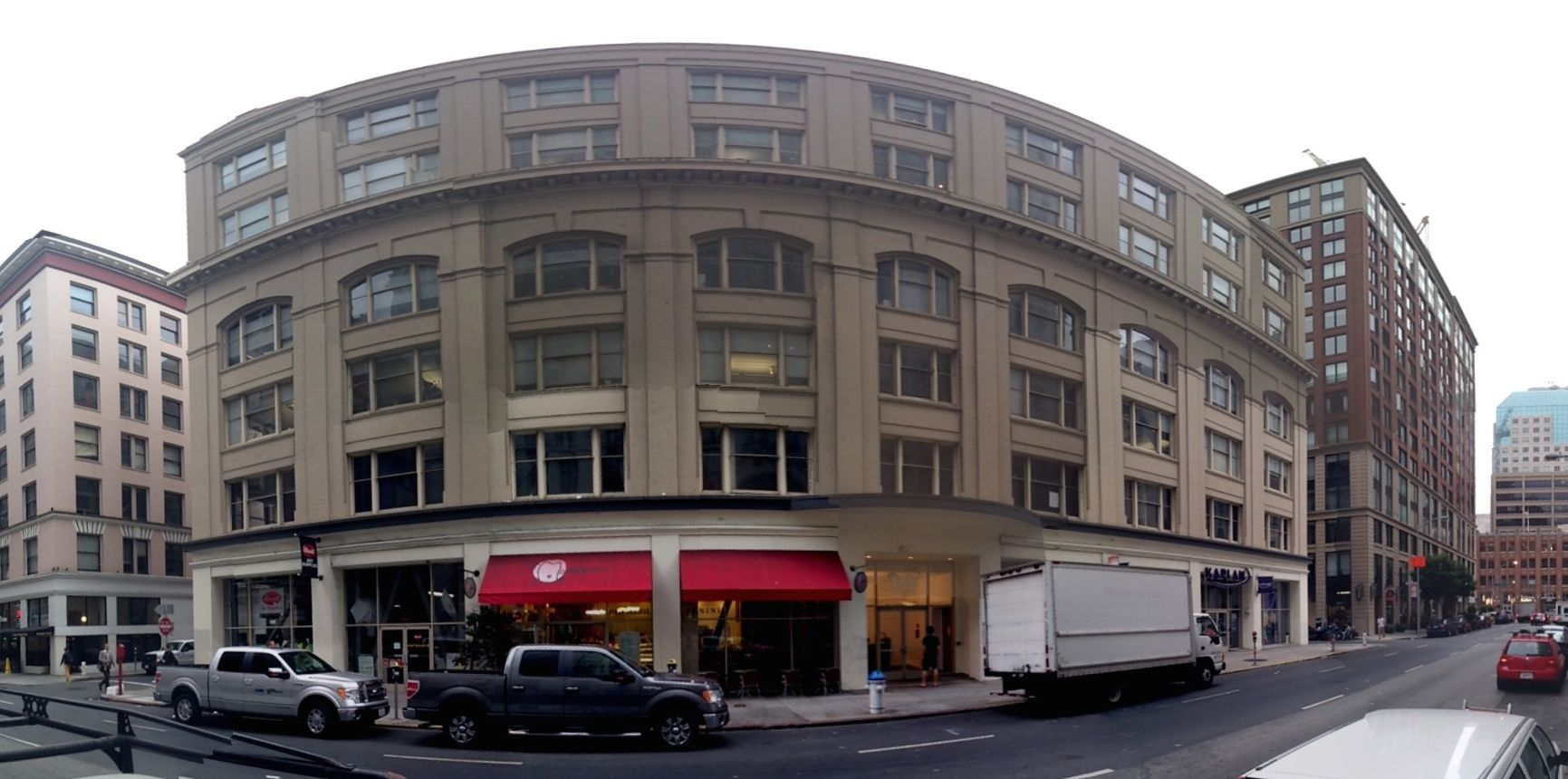 The facade of 149 New Montgomery Street, a building in the SoMa district of San Francisco, California, USA. This building is notable as it contains the offices of the Wikimedia Foundation.